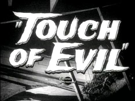 Screenshot from the trailer for the film Touch of Evil